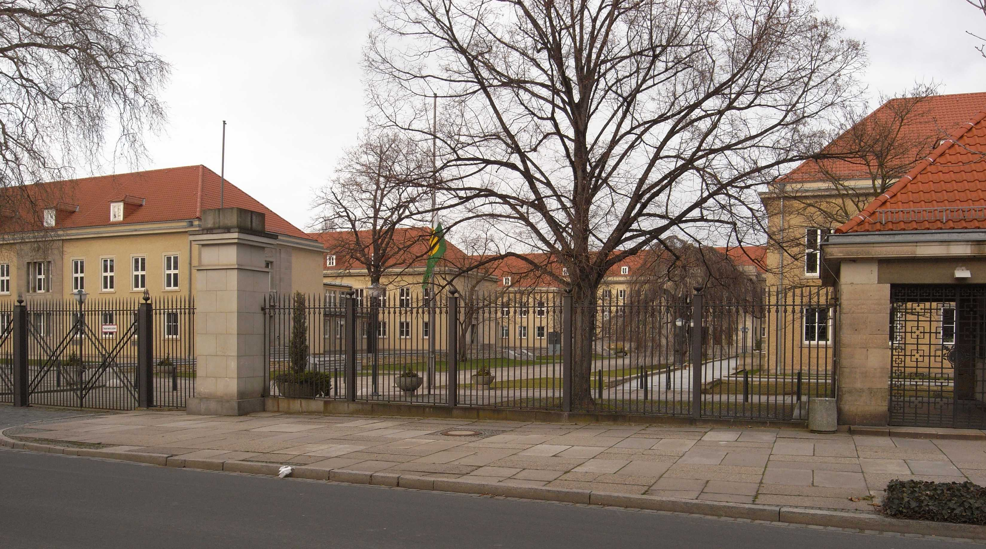 formerly Luftgaukommando IV Dresden, today Verteidigungsbezirkskommando 76 (Bundeswehr), main entrance (architect: Wilhelm Kreis), built 1935-1938